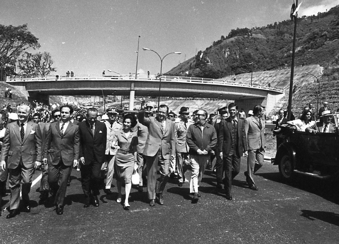 President Caldera of Venezuela during the inauguration of the Boyacá Avenue in 1971.